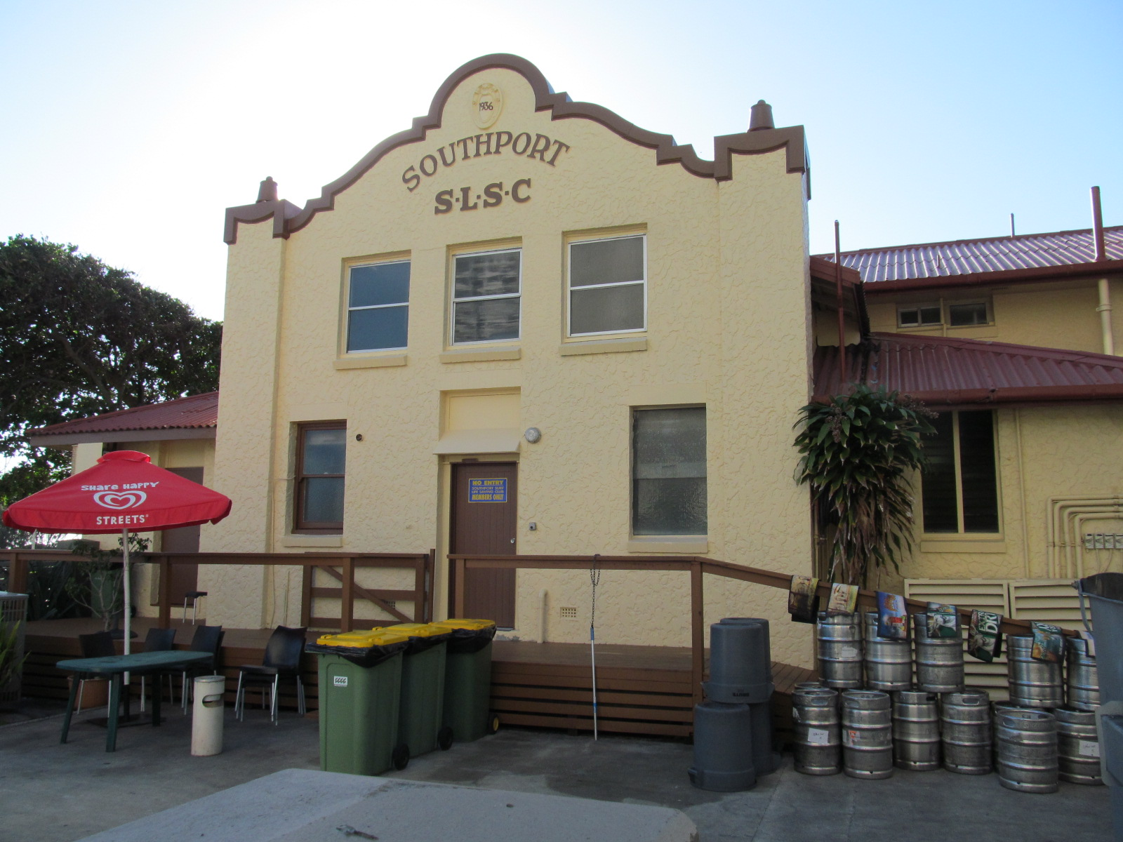 Front of Southport Surf Life Saving Club, Main Beach, Queensland